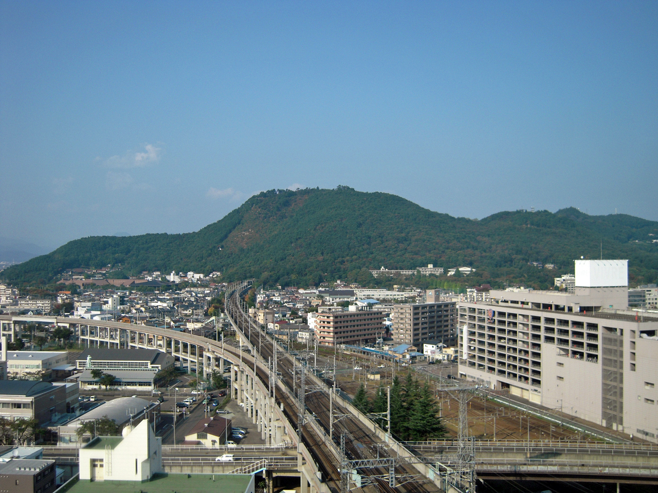 Mt. Shinobu, a mountain in Fukushima, Fukushima, Japan. This photo was taken from Corasse Fukushima, which is just south of Fukushima Station.